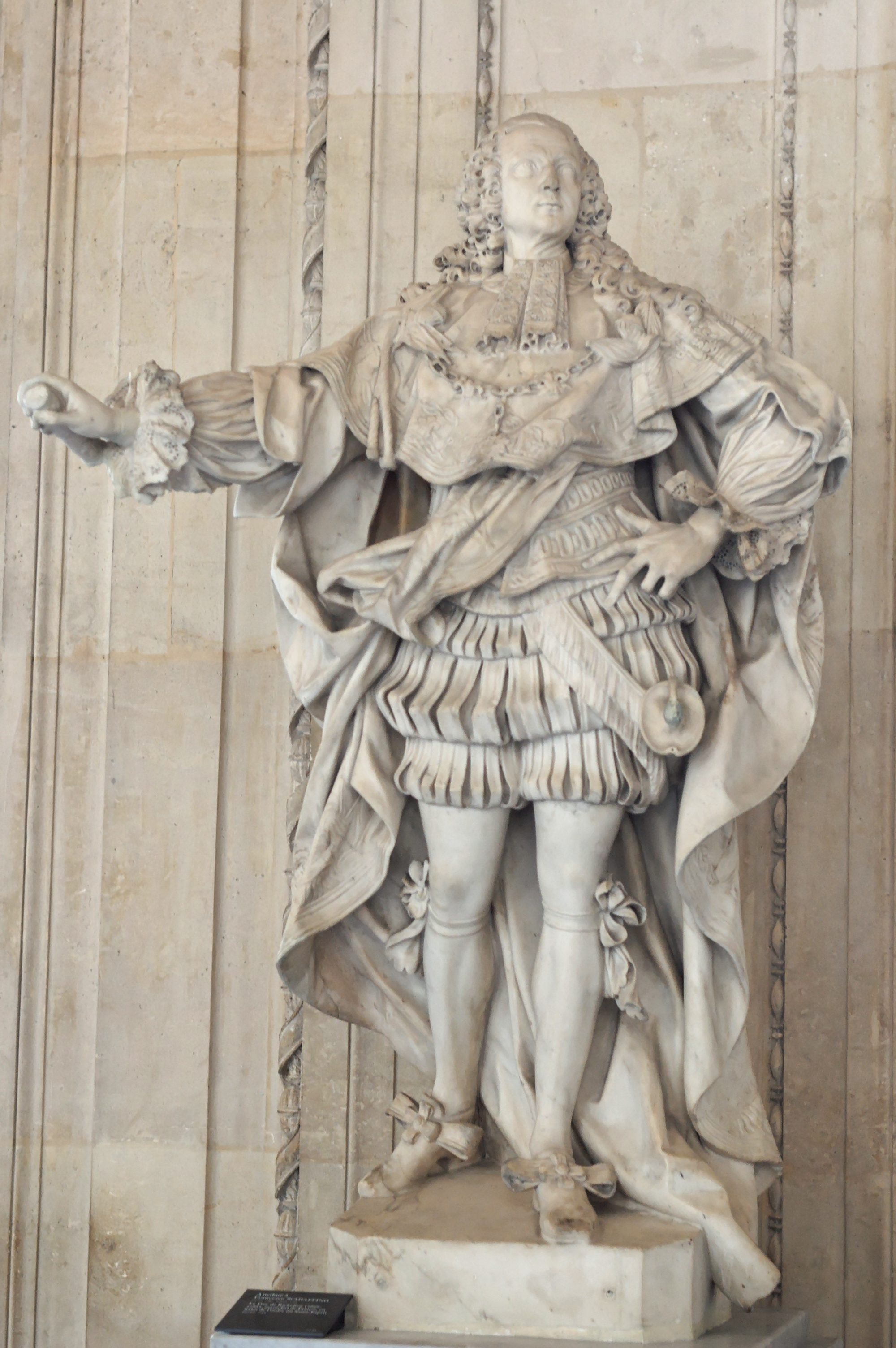 Portrait of the Duke of Richelieu (1696–1788) as a knight of the Holy-Spirit